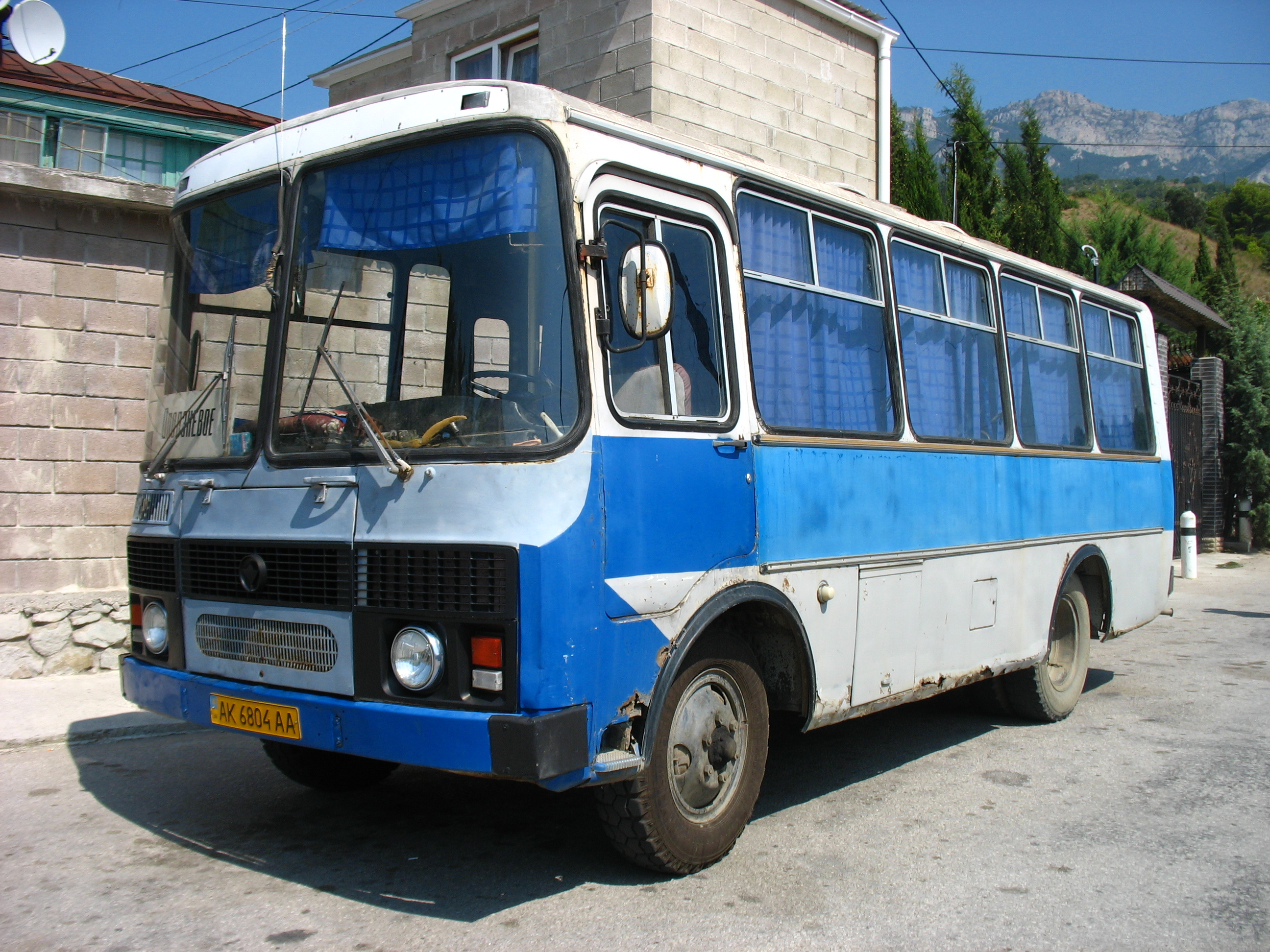 PAZ-3205 is a common Soviet midibus model made by the Pavlovo Bus Factory.